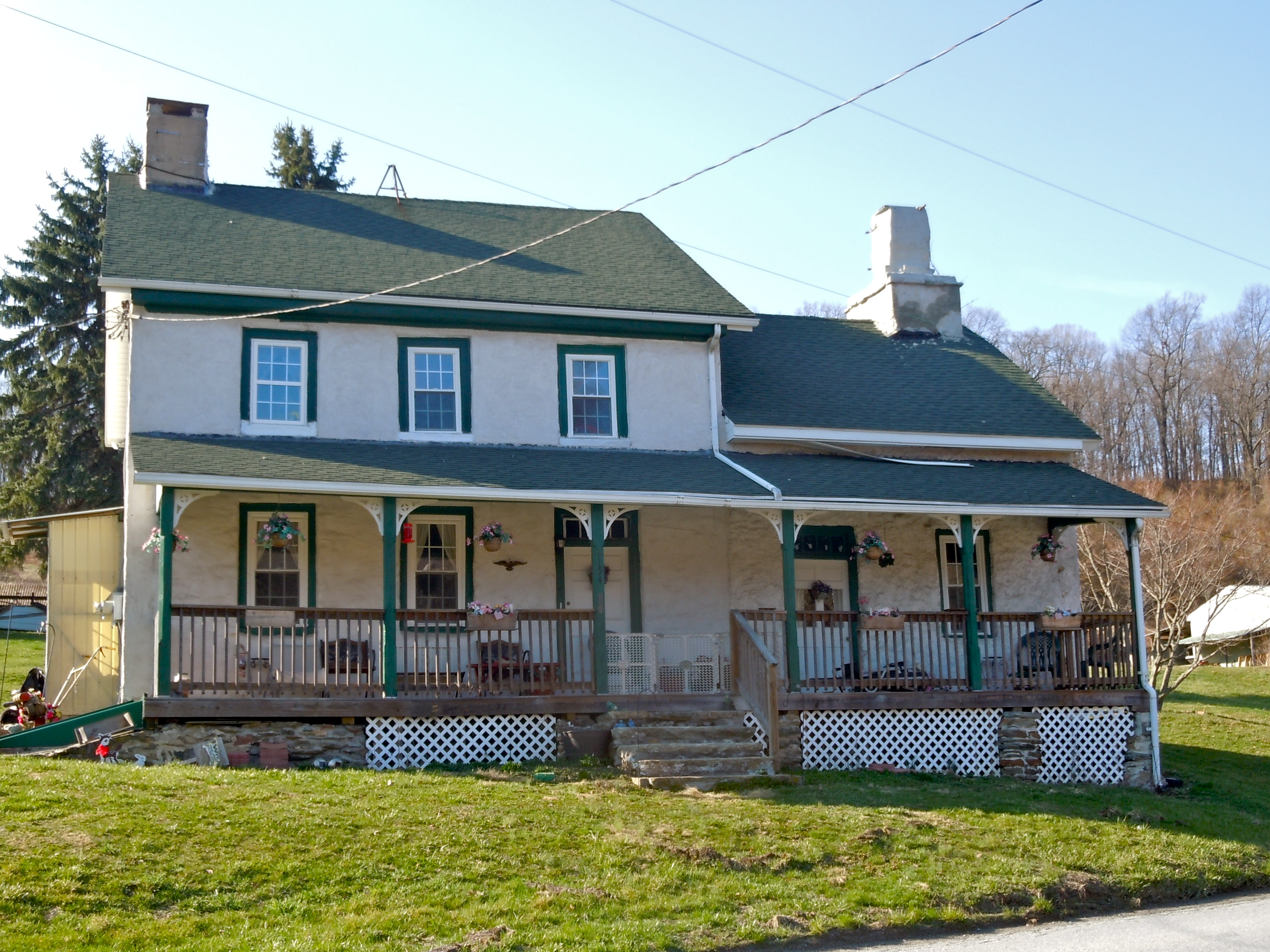 Thomas Scott House on the NRHP since May 20, 1985. On Park Avenue near Coatesville in East Fallowfield Township, Chester County, Pennsylvania.